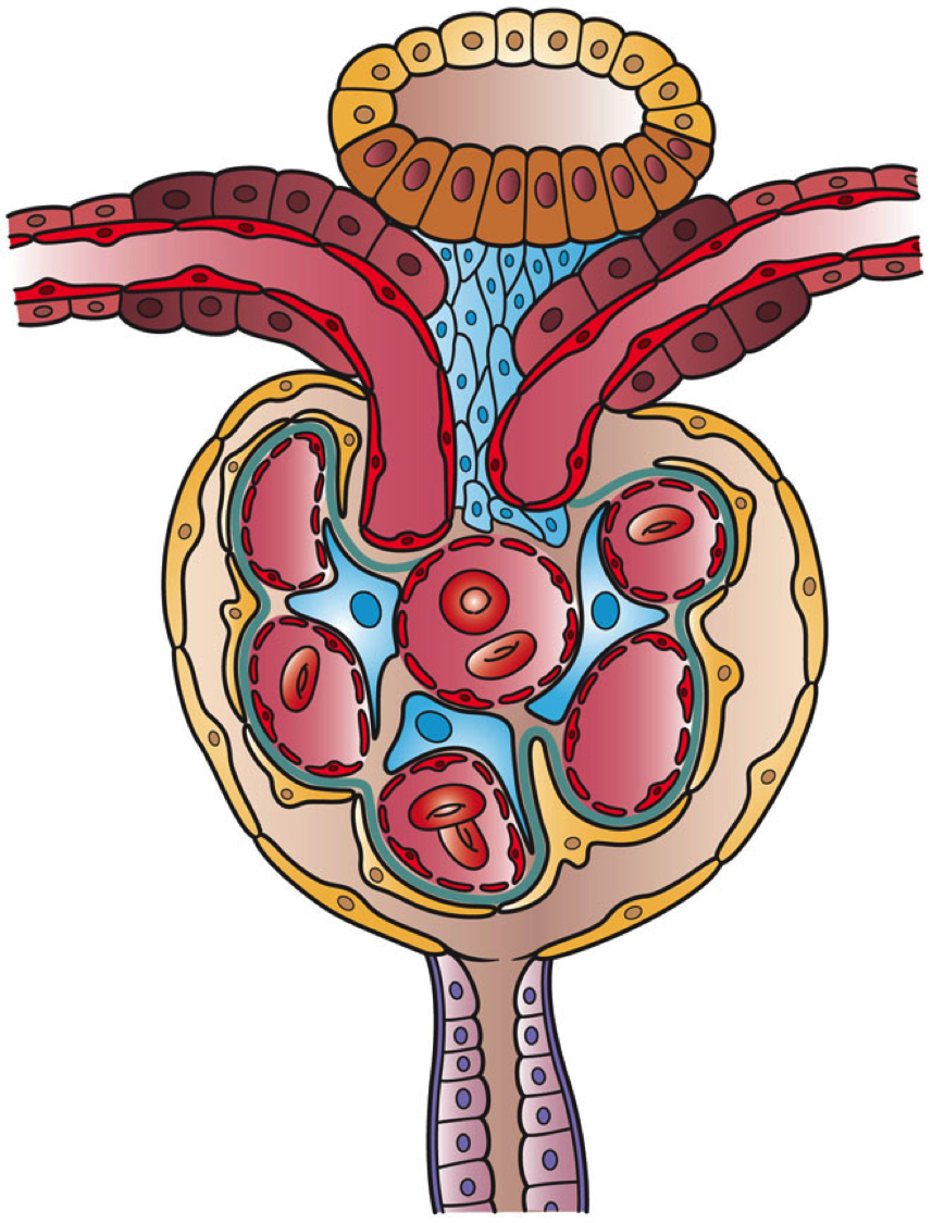 This images shows the cells that make up a nephron in the kidneys. The following parts are seen: Lumen of a distal convoluted tubule (DCT), Macula densa, juxtaglomerular cells, lacis cells, mesangial cells, podocytes - visceral layer of Bowman’s capsule, parietal layer of Bowman’s capsule, lumen of a glomerular capillary, and the urinary space.